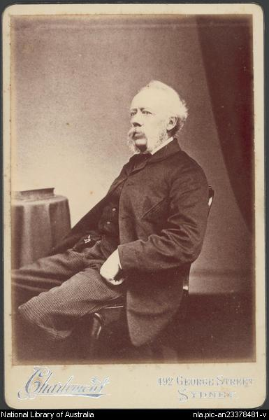 Portrait of Conrad Martens, 187-?, sepia toned; 16.5 x 10.6 cm